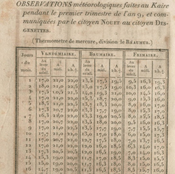 Meteorological data for Cairo from the Napoleonic invasion of Egypt.